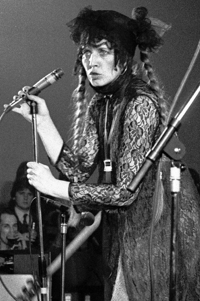 Lene Lovich Bradford Uni Communal Building 21.2.1979